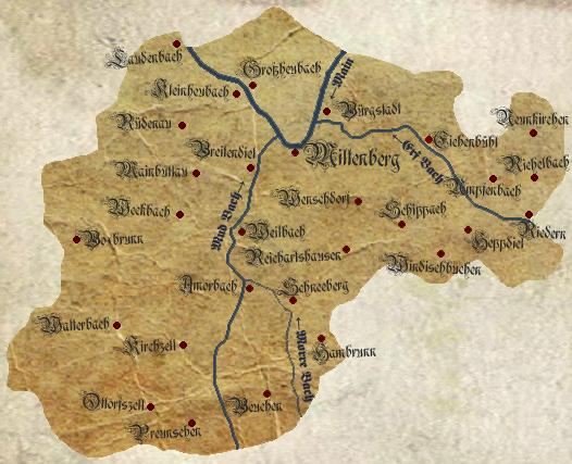 Management area of the bavarian Bezirksamt Miltenberg in 1880. Traced from the Topographischer Atlas vom Königreiche Baiern diesseits des Rhein Blatt: 25. Miltenberg